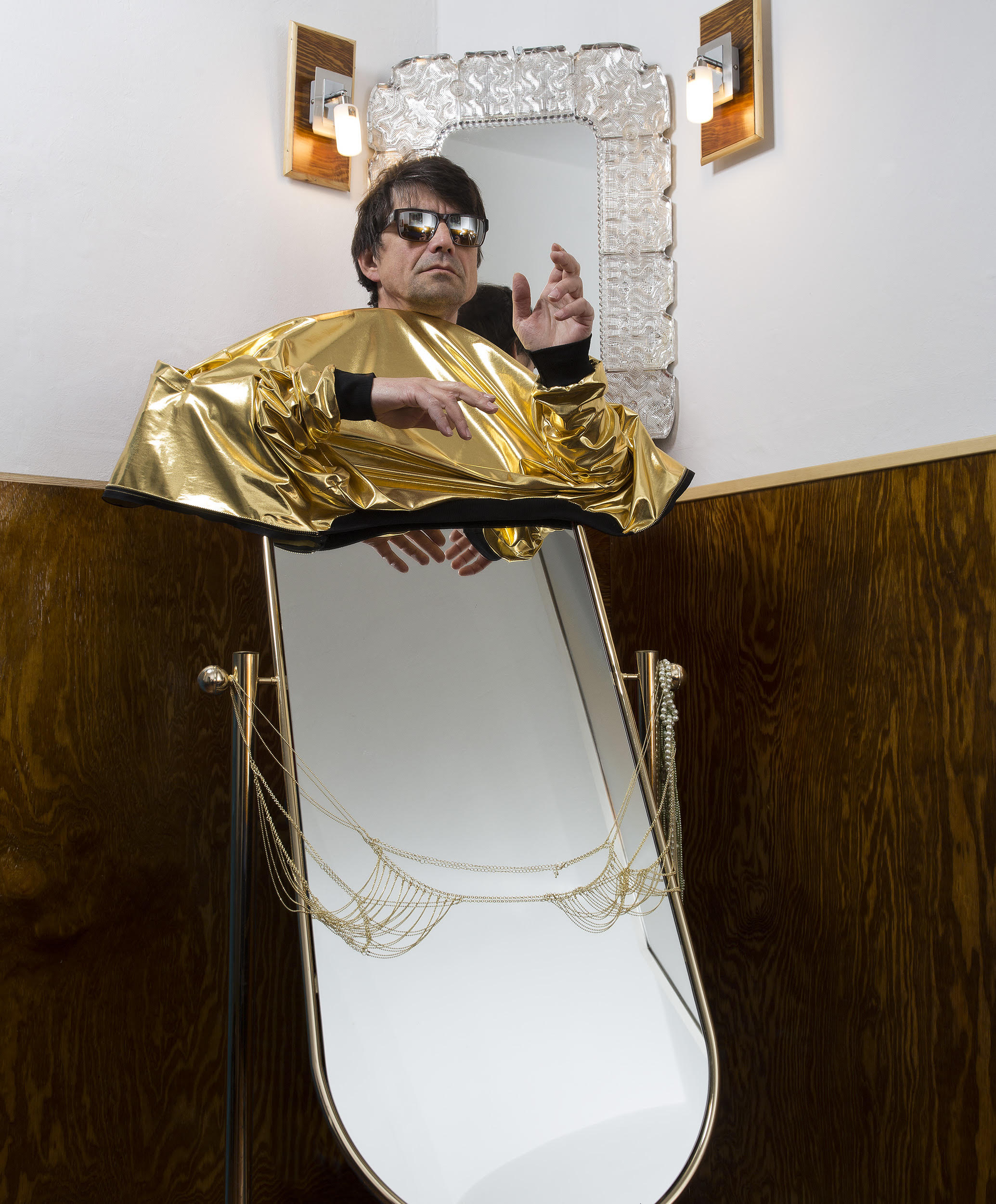 Bernhard Martin portrayed by Oliver Mark, Berlin 2017